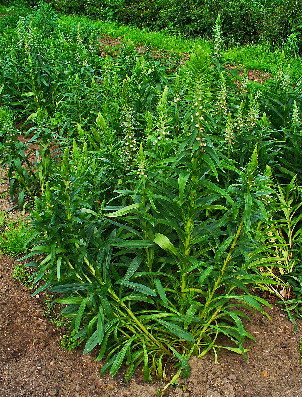 Digitalis lanata, Plantaginaceae, Woolly Foxglove, Grecian Foxglove, habitus. The leaves are used in homeopathy as remedy: Digitalis lanata (Dig-l.)